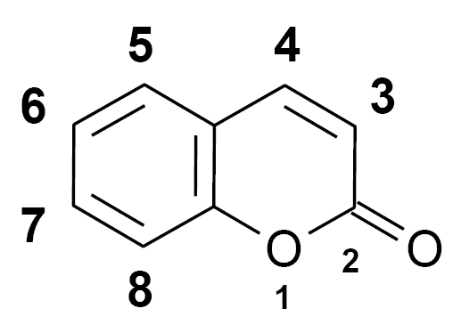 Numeration of the atoms in the heterocyclic compound coumarin, starting with the heteroatom oxygen.